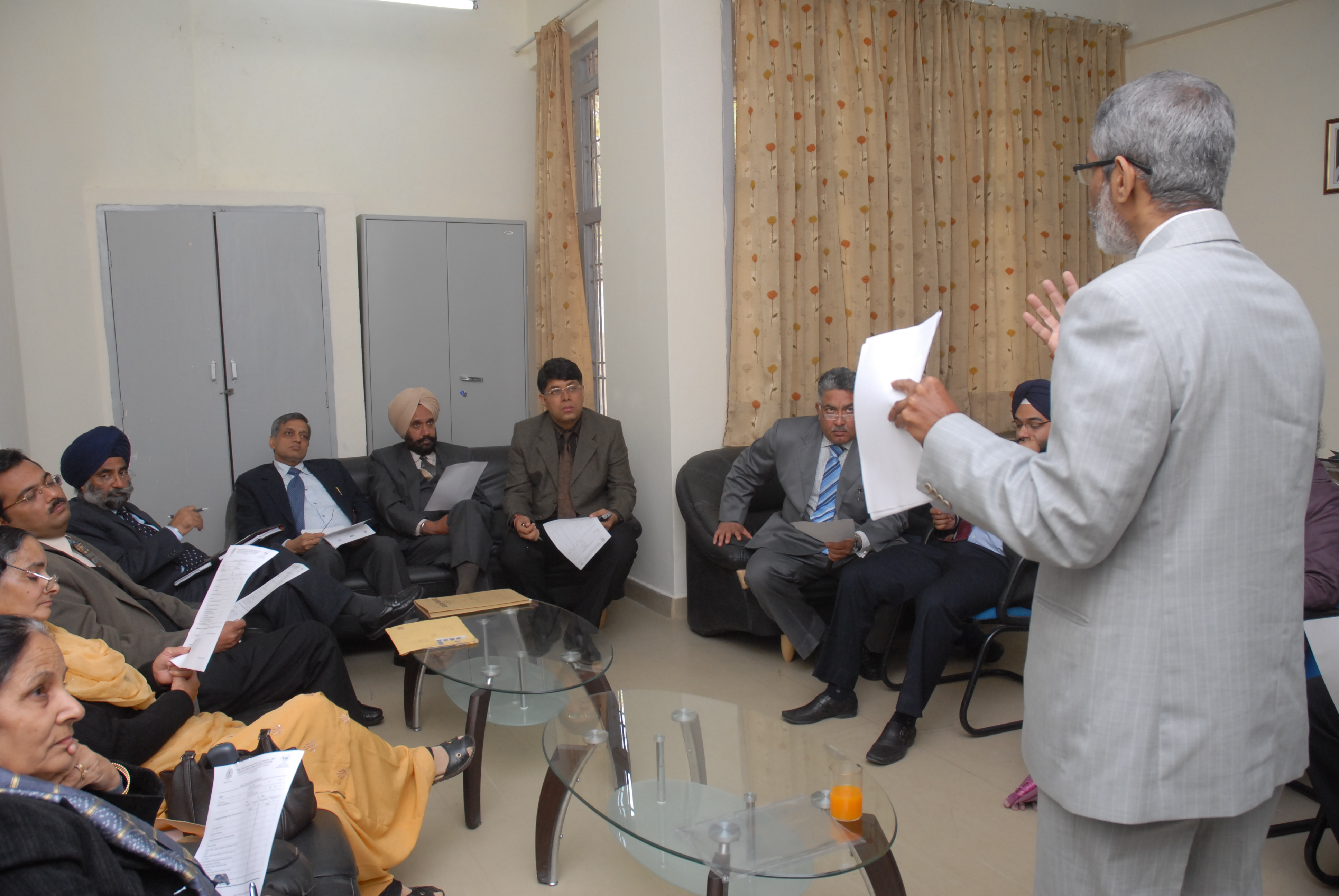 The Hon'ble High Court judges who judged the various rounds are Justice J.S. Khehar Justice K.S. Garewal Justice M.M. Kumar Justice Hemant Gupta Justice S.S. Saron Justice Rajive Bhalla Justice Vinod K. Sharma Justice TPS Mann Justice M.M.S. Bedi Justice R.K. Garg Justice R.K. Jain Justice Rajan Gupta